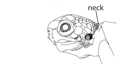 Standard Event System character depiction